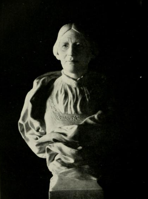 Marble bust of Harriet Newell Haskell, from a 1908 publication.